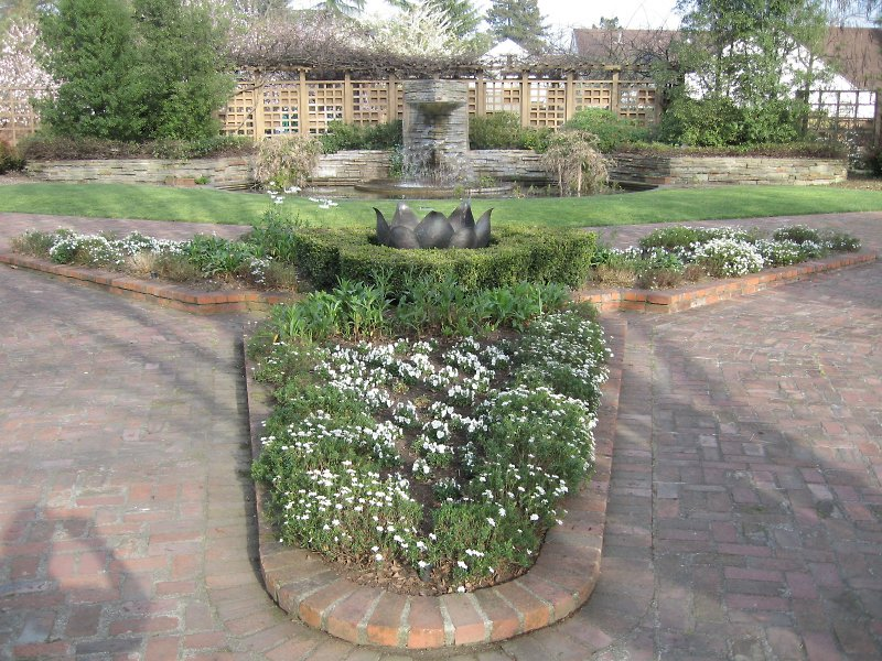 The Luther Burbank Gardens, Santa Rosa, USA Self-taken 25 February 2006 with Canon PowerShot SD500 Digital ELPH and compressed with Paint Shop Pro